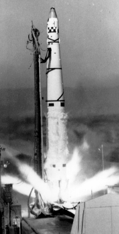 Launch of the Thor Agen A rocket with Discoverer 8 satellite, Corona KH-1 type, 20 November 1959.